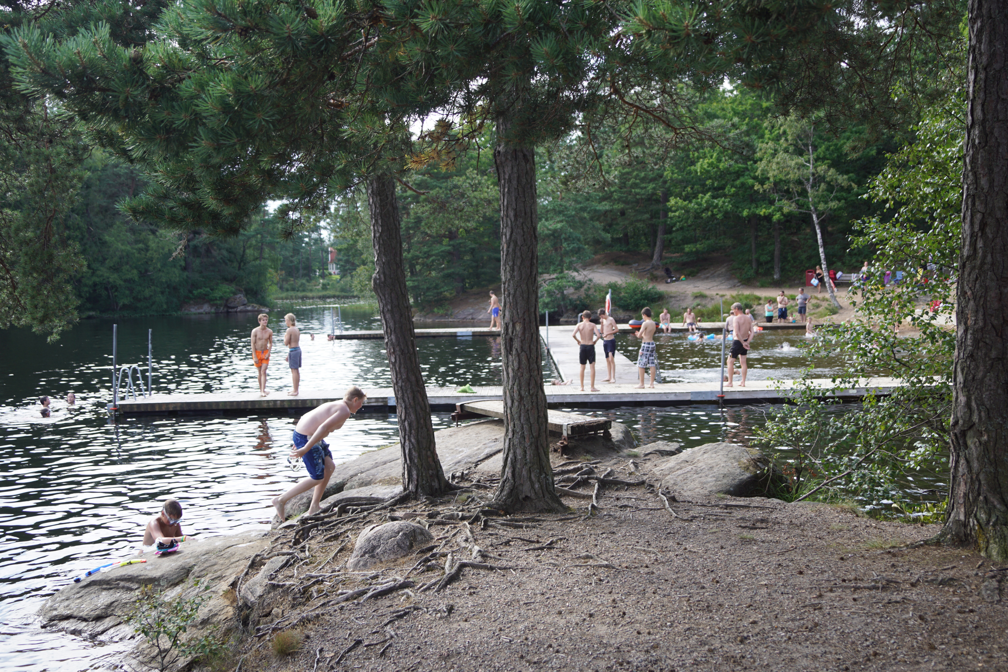 Hultasjön, a lake in Ale Municipality, Sweden.